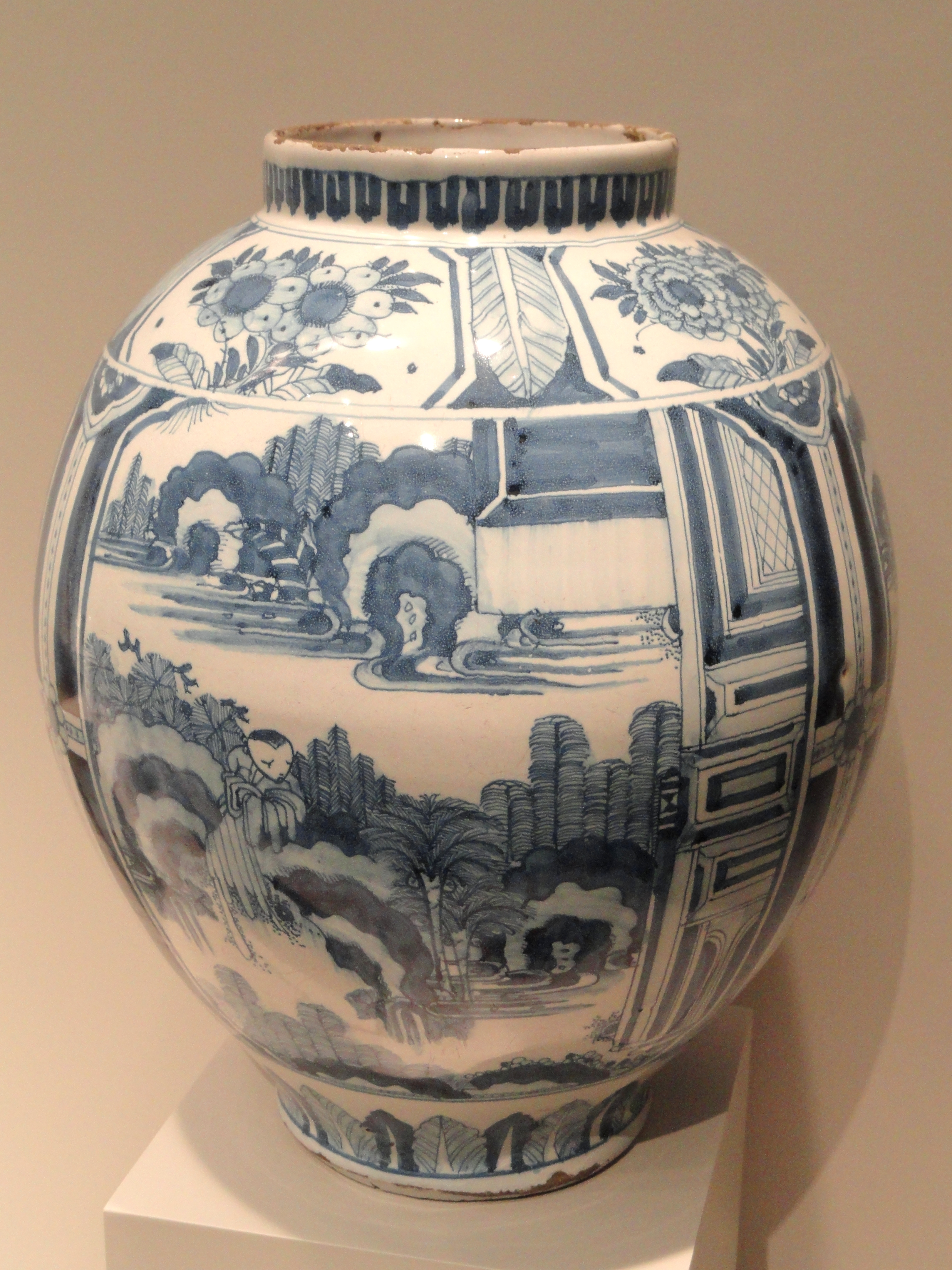 Exhibit in the Art Institute of Chicago, Chicago, Illinois, USA. This artwork is in the public domain because the artist died more than 70 years ago.